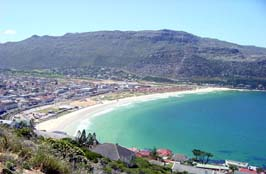 Taken in October 2001 by Donald Gill and uploaded by him. The view is from Elsie's Peak looking northwards. This picture is also available on (